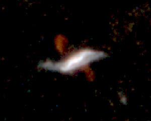 Messier 101 observed in the far infrared by Herschel. Herschel is an ESA space observatory with science instruments provided by European-led Principal Investigator consortia and with important participation from NASA. The observations performed with the ESA Herschel Space Observatory (Pilbratt et al. 2010), in particular employing Herschel's large telescope and powerful science instrument SPIRE (Griffin et al. 2010). Pilbratt, G.L., Riedinger, J.R., Passvogel, T. et al. 2010, A&A, 518, L1 Griffin, M.J., Abergel, A., Abreu, A. et al. 2010, A&A, 518, L3